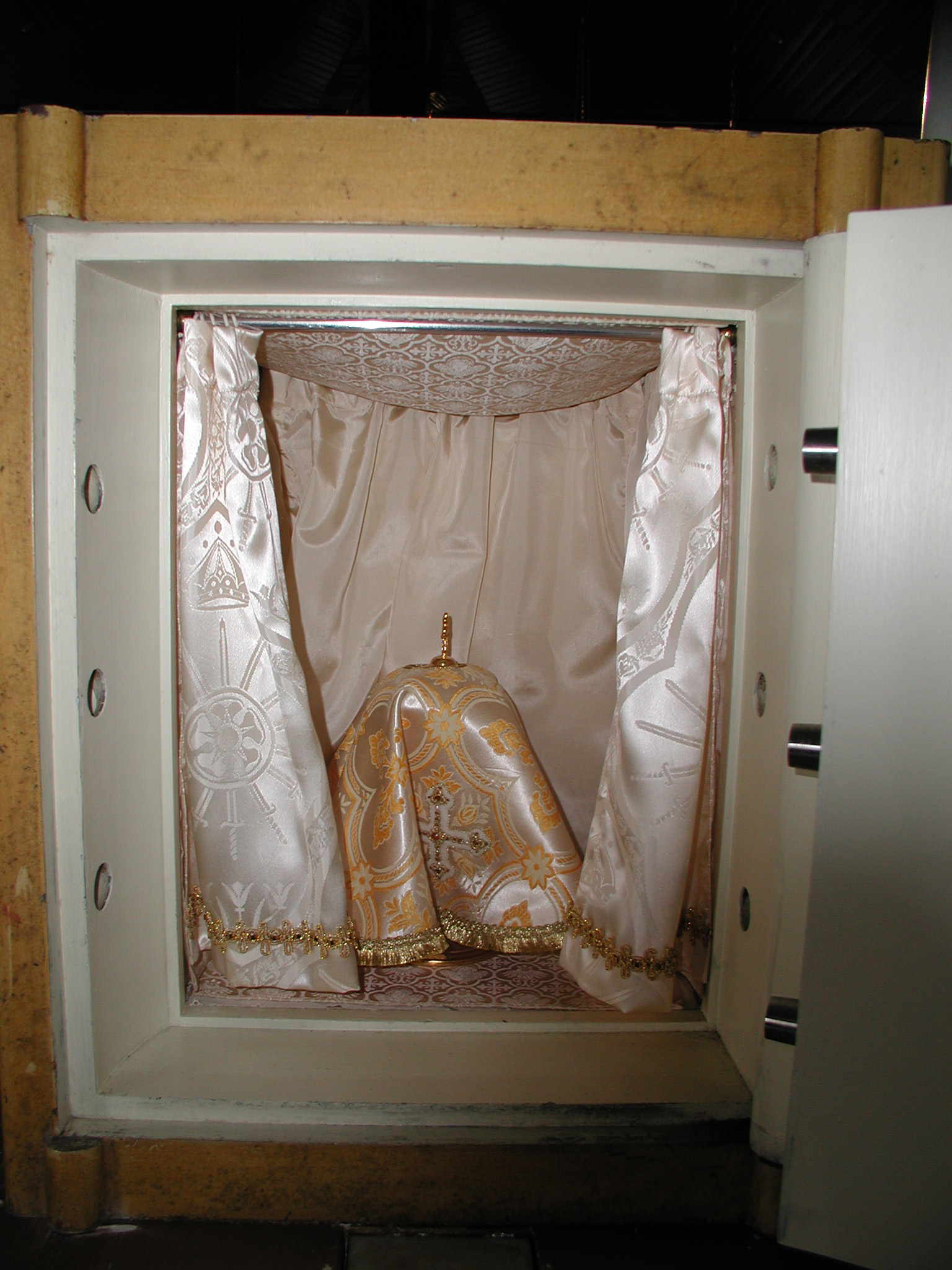 The interior of the tabernacle of the Our Lady the Garden Enclosed in Warfhuizen. The Ciborium is covered with a 'Ciborievelum' (Dutch for this kind of veil) to indicate the presence of the sacramental bread inside of it. See also File:Ciborie2.jpg for a closeup.